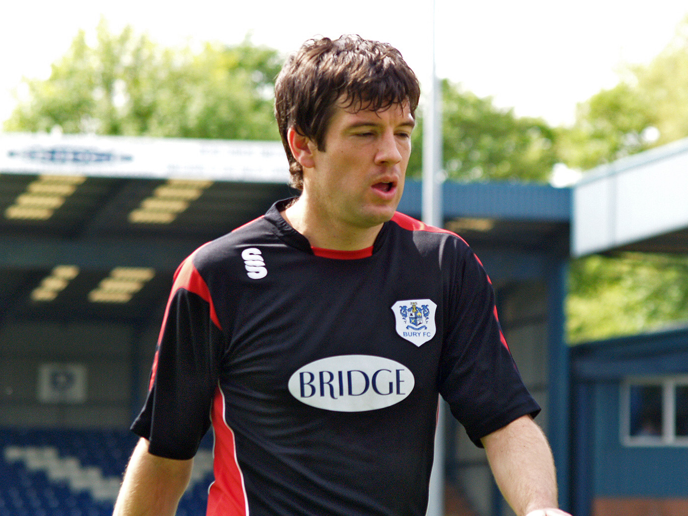 Bury FC midfielder Brian Barry-Murphy during the warm up at Gigg Lane, home of Bury Football Club prior to the Bury vs. Accrington Stanley game. Saturday 2nd May 2009